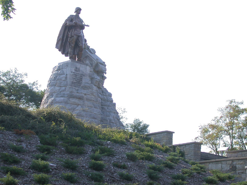 statue made by Lew Kerbel at Seelow Heights, Germany